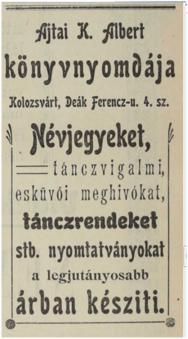 Advertisement in a newspaper of Albert Ajtai K. (1838-1919) pressmemn in Kolozsvár (today in Cluj-Napoca)